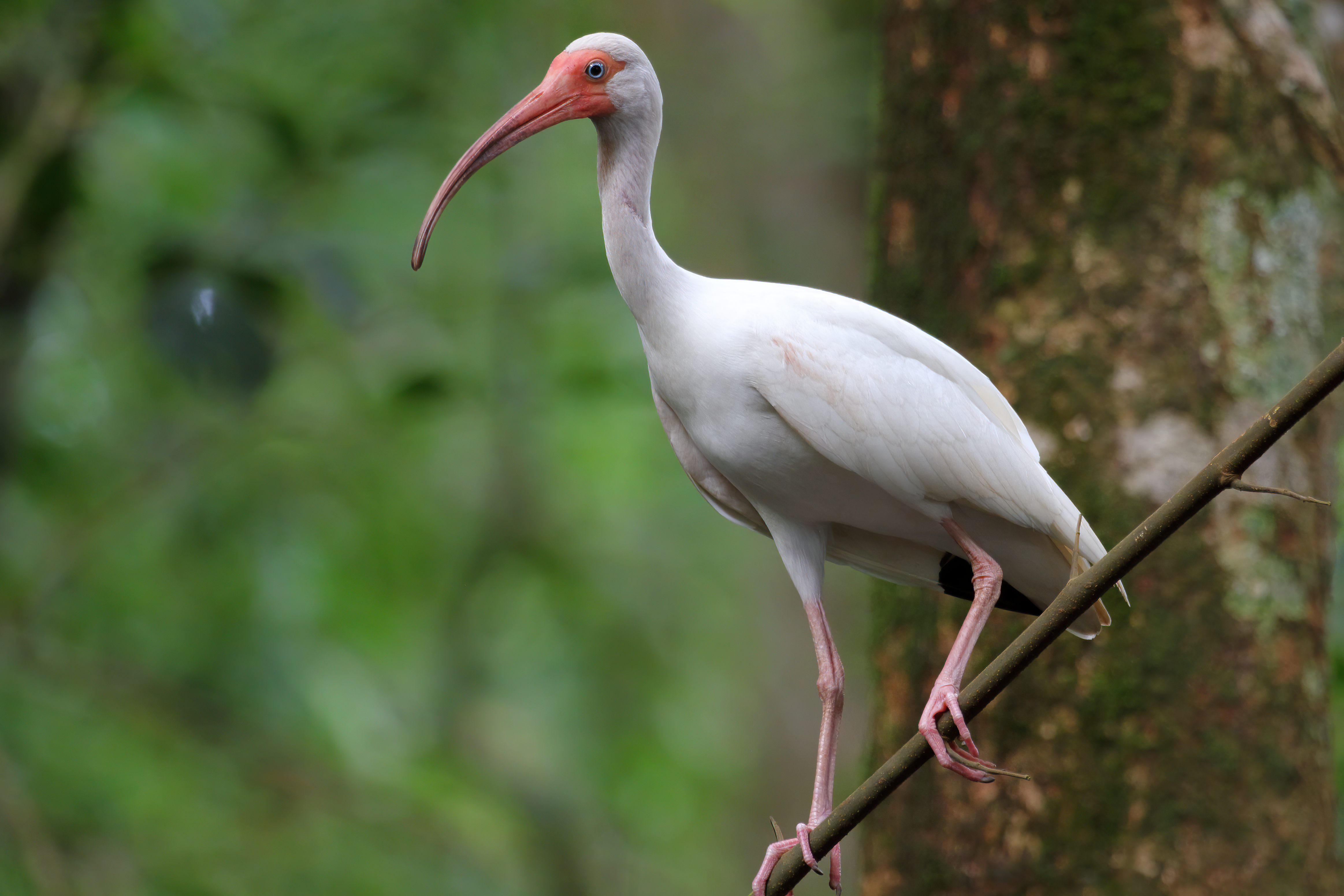 American white ibis, Corcovado National Park, Costa Rica